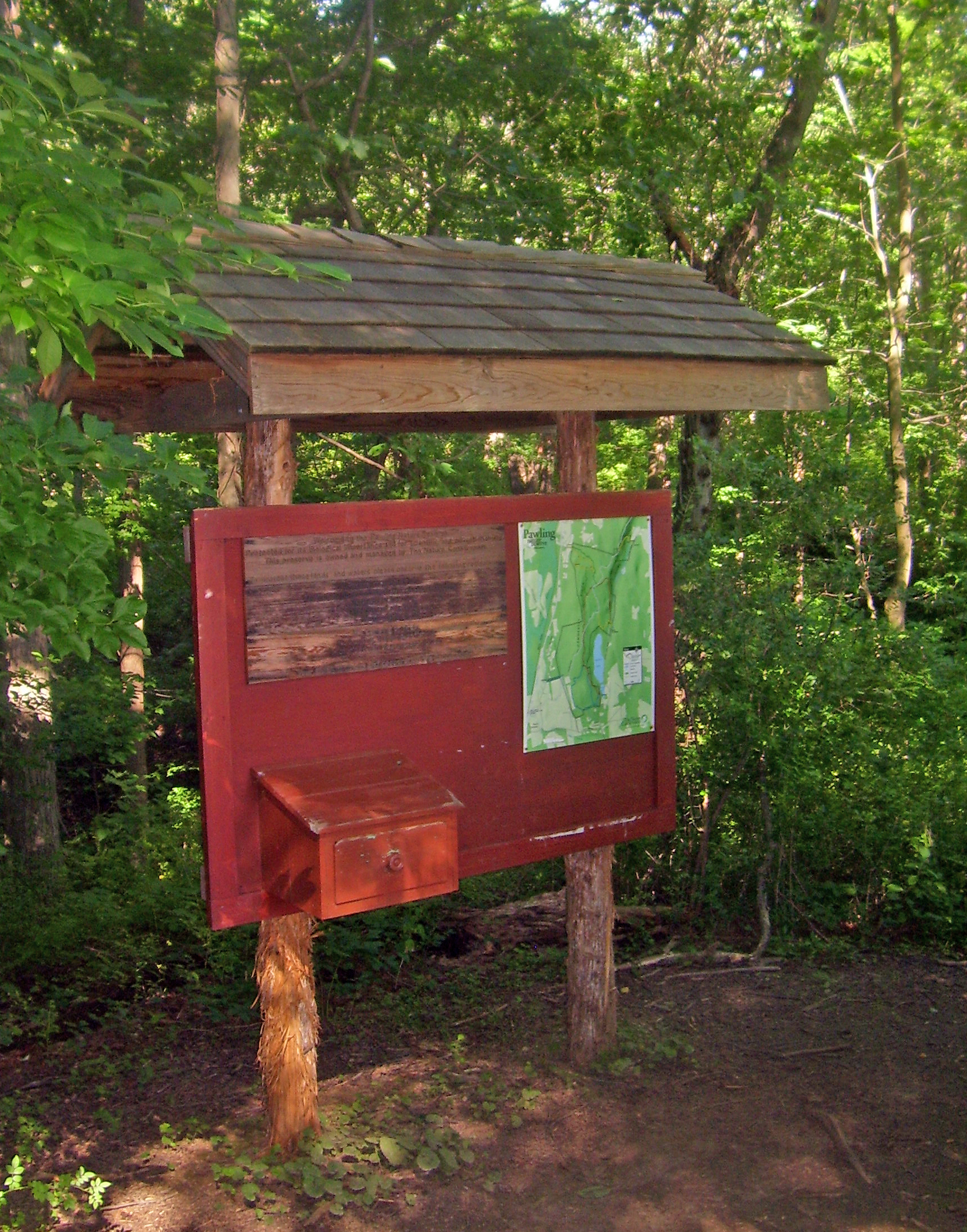 Kiosk along Appalachian Trail where it enters Pawling Nature Preserve, Pawling, NY, USA